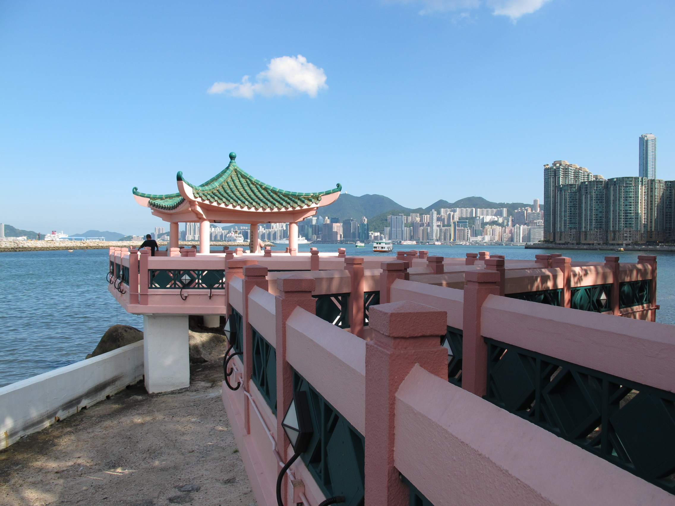 Hoi Sham Park Hoi Sham Pavilion